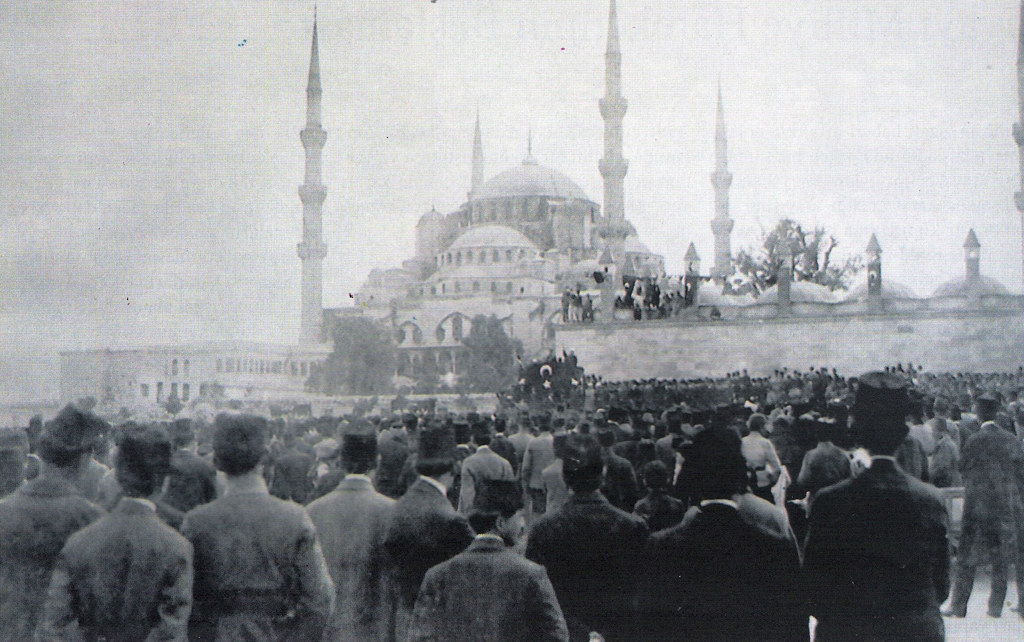 Public demonstration for national unity in Sultanahmet, İstanbul. Photograph with historical significance scanned from a newspaper clipping from Cumhuriyet.